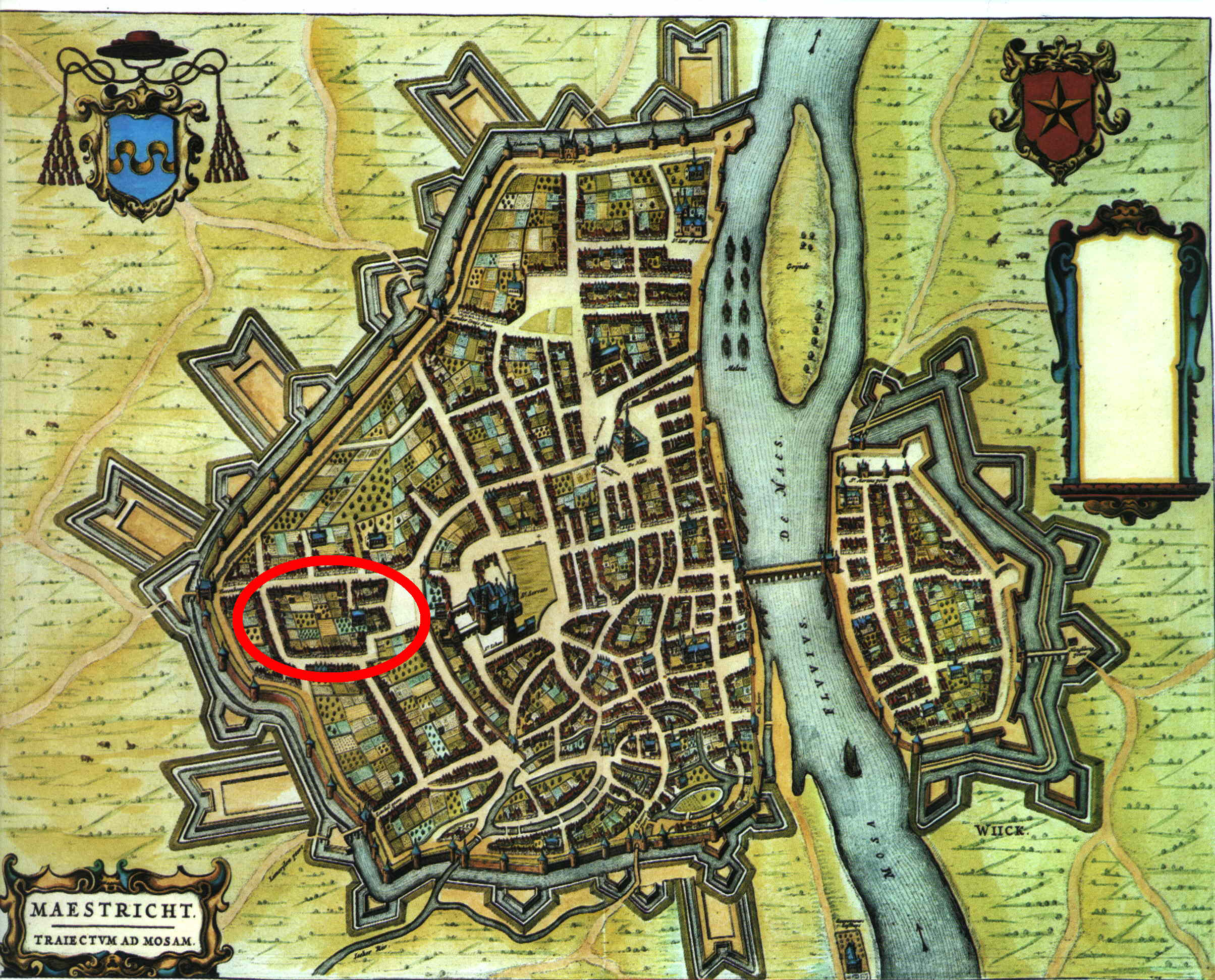 Approximate Location of Herrschaft Tweebergen in the town of Maastricht, The Netherlands